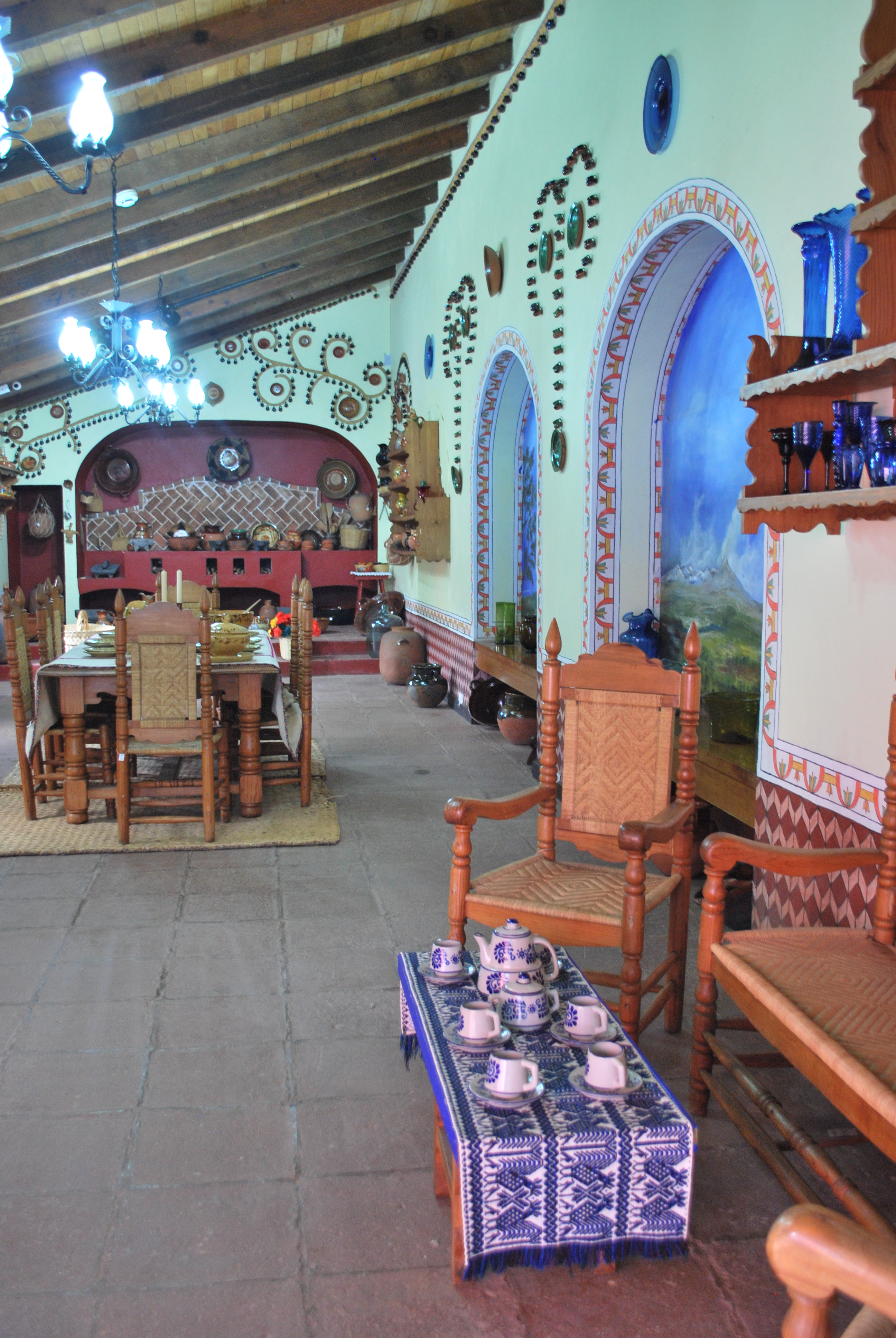 Kitchen/Dining display at the Museo de las Culturas Populares of the Centro Cultural Mexiquense in Toluca, Mexico